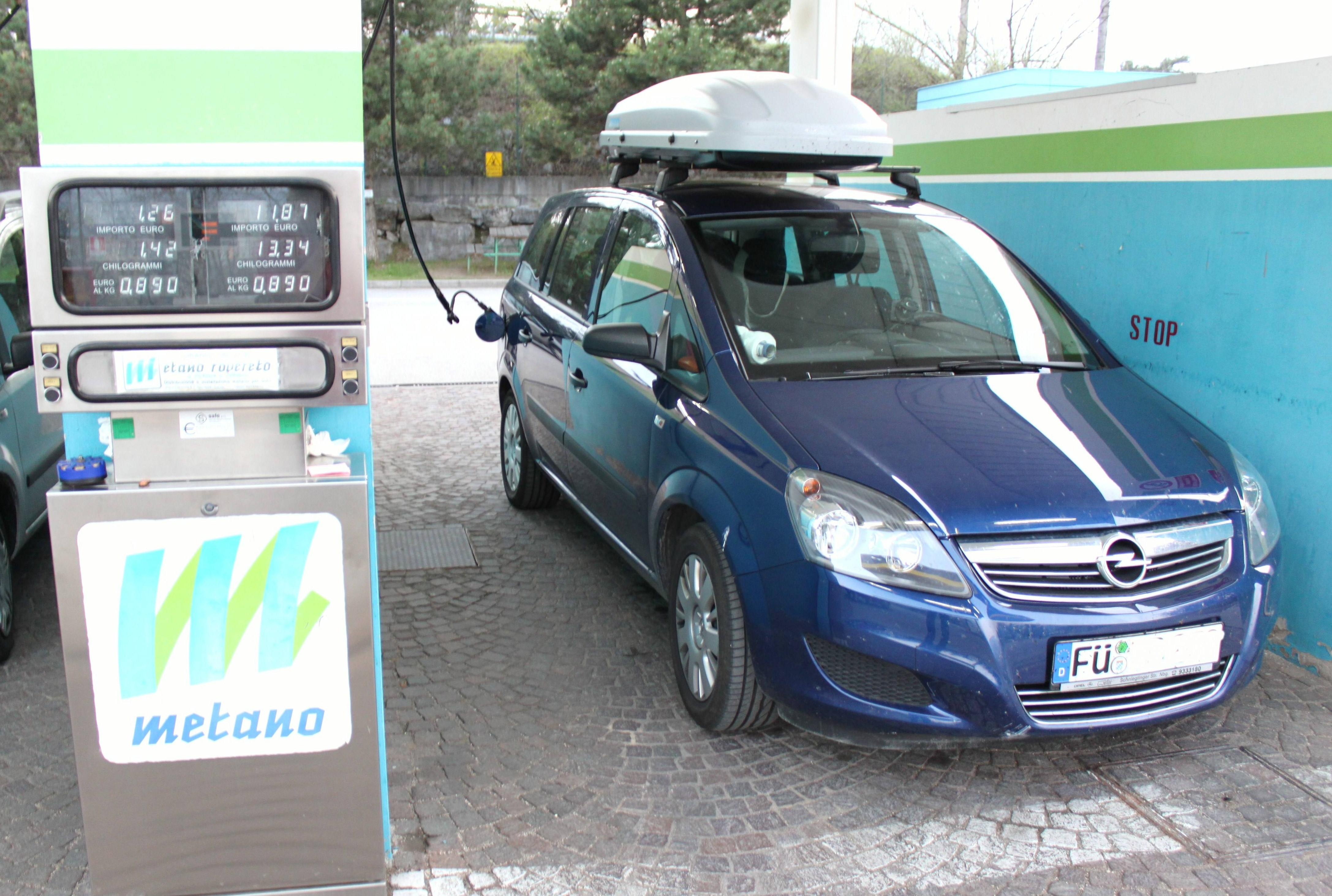 Natural Gas Vehicle Opel Zafira 1,6 CNG ecoflex at filling station in Rovereto, Italy